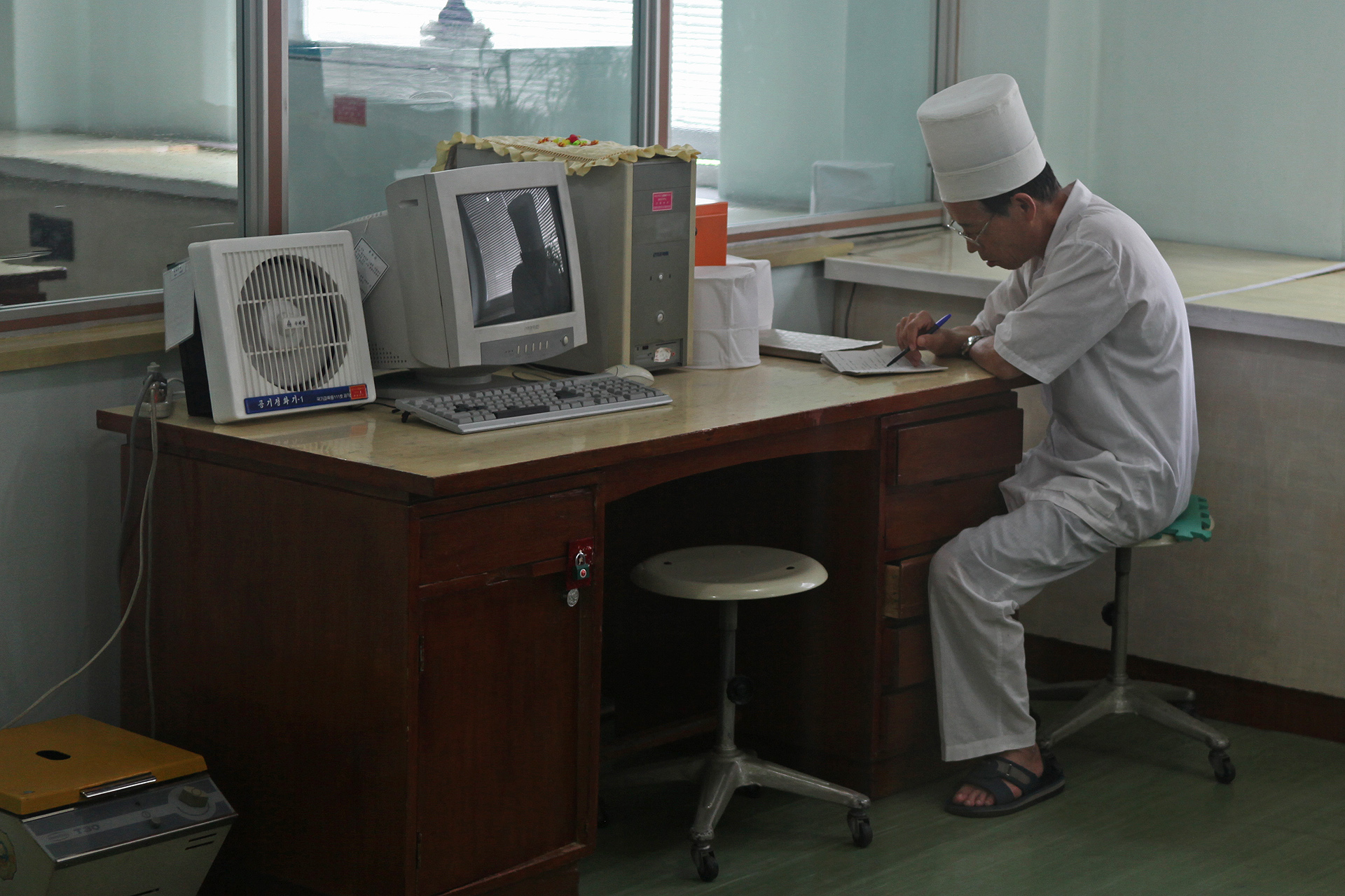 Doctor in Maternity Hospital, Pyongyang. The little red plates on computer, the fridge and fan means that they are given to the hospital by Kim Jong-Il, for free of course.